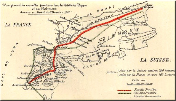 Map detailing the changes of boundaries between France and Switzerland following the "Traité des Dappes" in 1862. The valley of the Dappes was a claimed territory between Switzerland and France since 1648 and it's conquest by the canton of Berne. The treaty for wich is extracted this map ended the dispute.